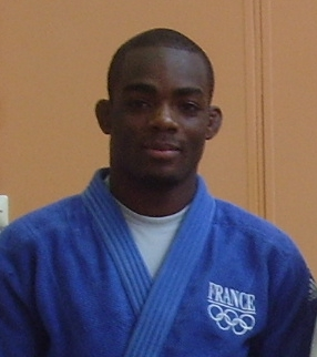 Dimitri Dragin in Le Havre during a training in "Paul Eluard Judo"